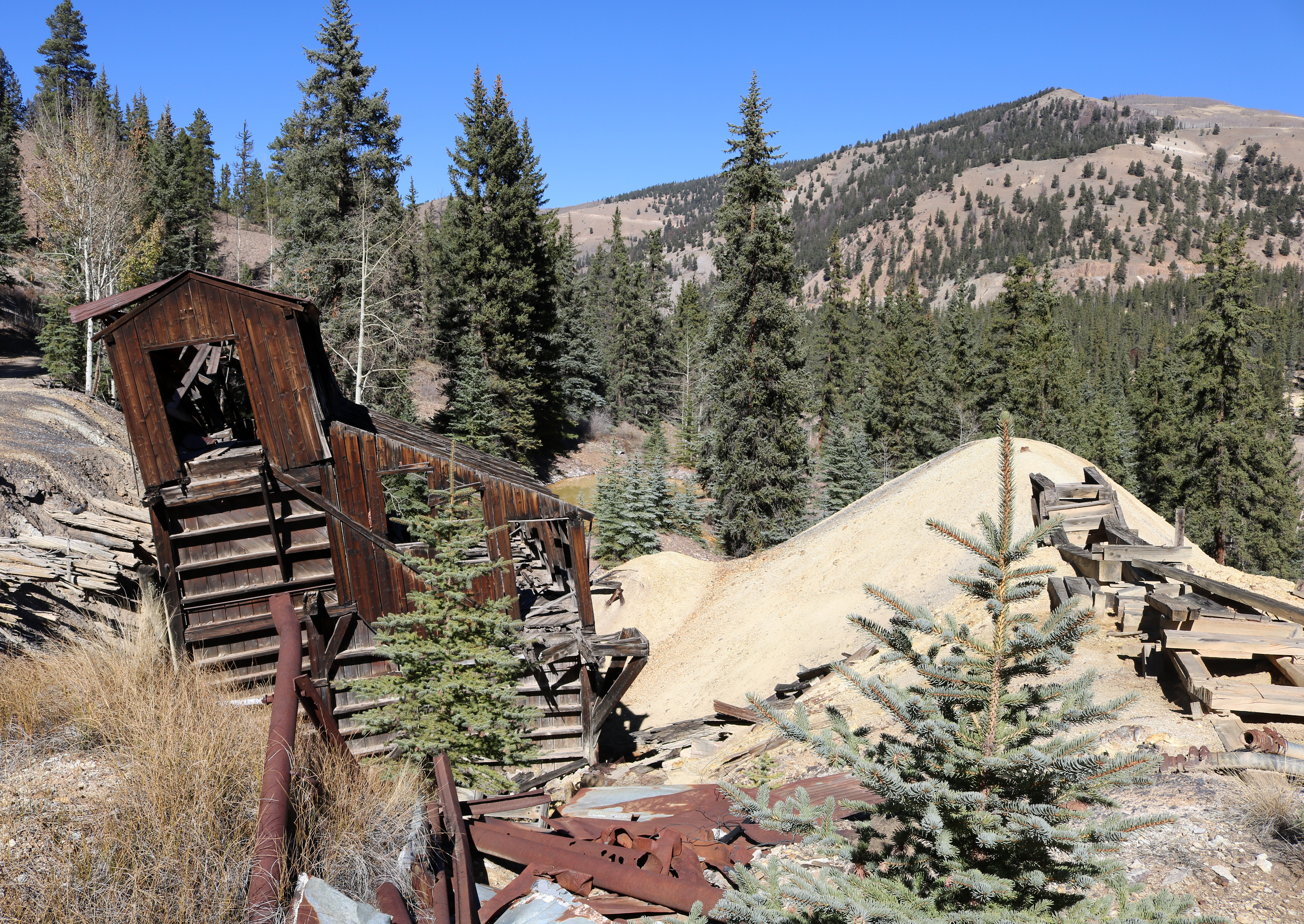 The Golden Fleece Mine, located near Lake San Cristobal in Hinsdale County, Colorado.